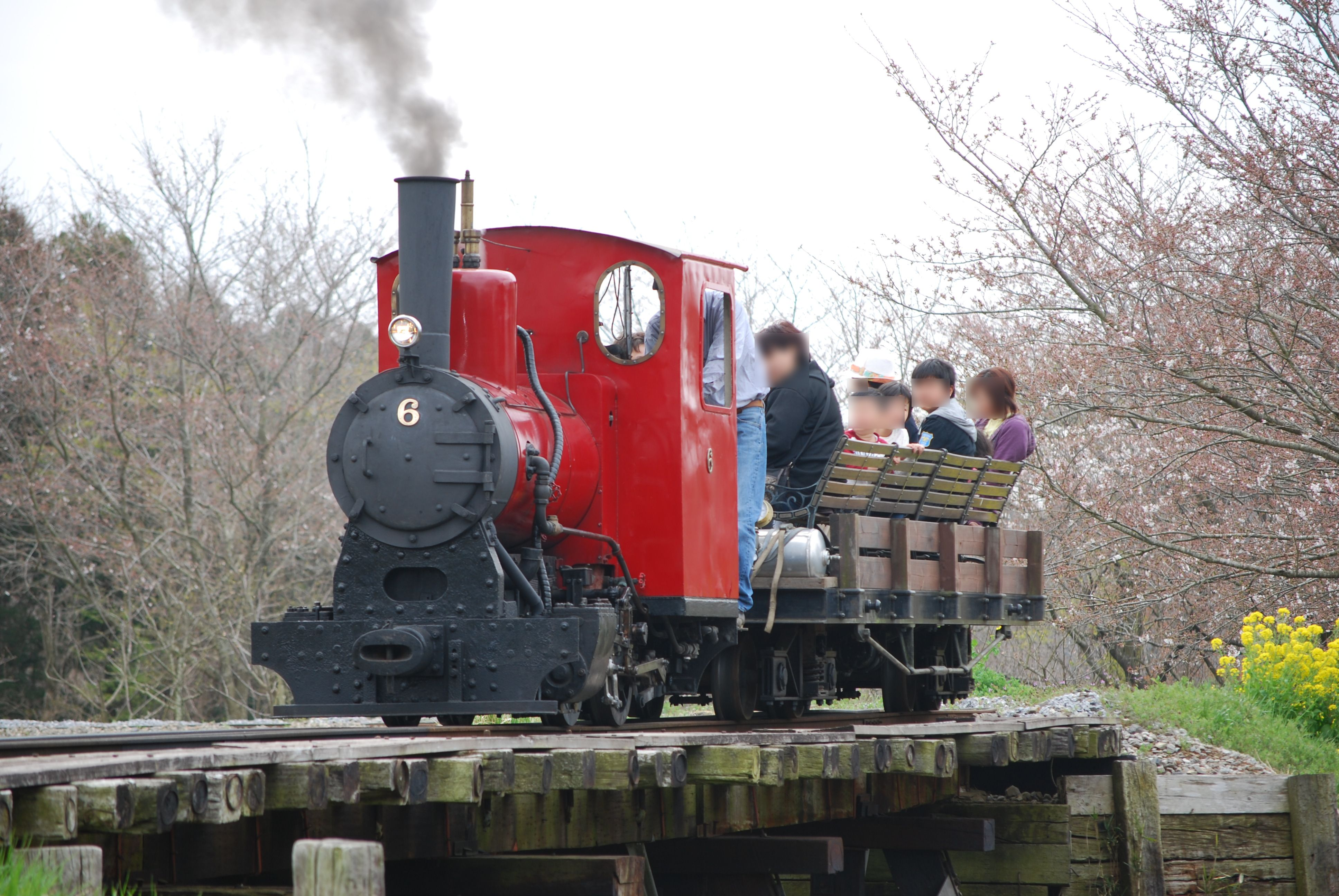 Rasuchi Makiba-Line No.6,Narita-city,Japan